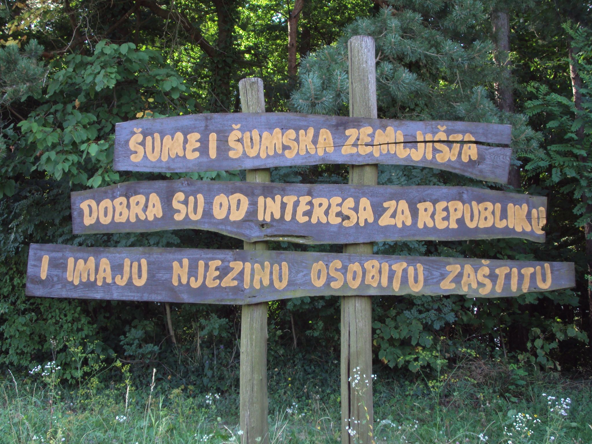 Forest table on Bilogora, Croatia. It says: "Forests and forest lands, goods are of interest to the Republic of Croatia and enjoy its special protection."